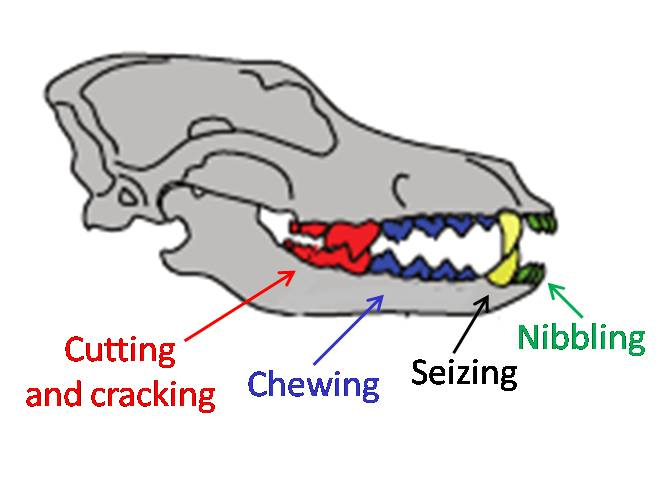 Dentition of an Ice Age wolf showing functions of the teeth. References for the function of teeth used to predate on Late Pleistocene megafauna can be found in Leonard 2007 for the Beringian wolf or Van Valkenburgh 1993 for the Dire wolf.